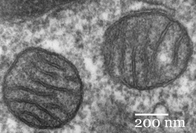 Transmission electron microscope image of a thin section cut through an area of mammalian lung tissue. The high magnification image shows a mitochondria.